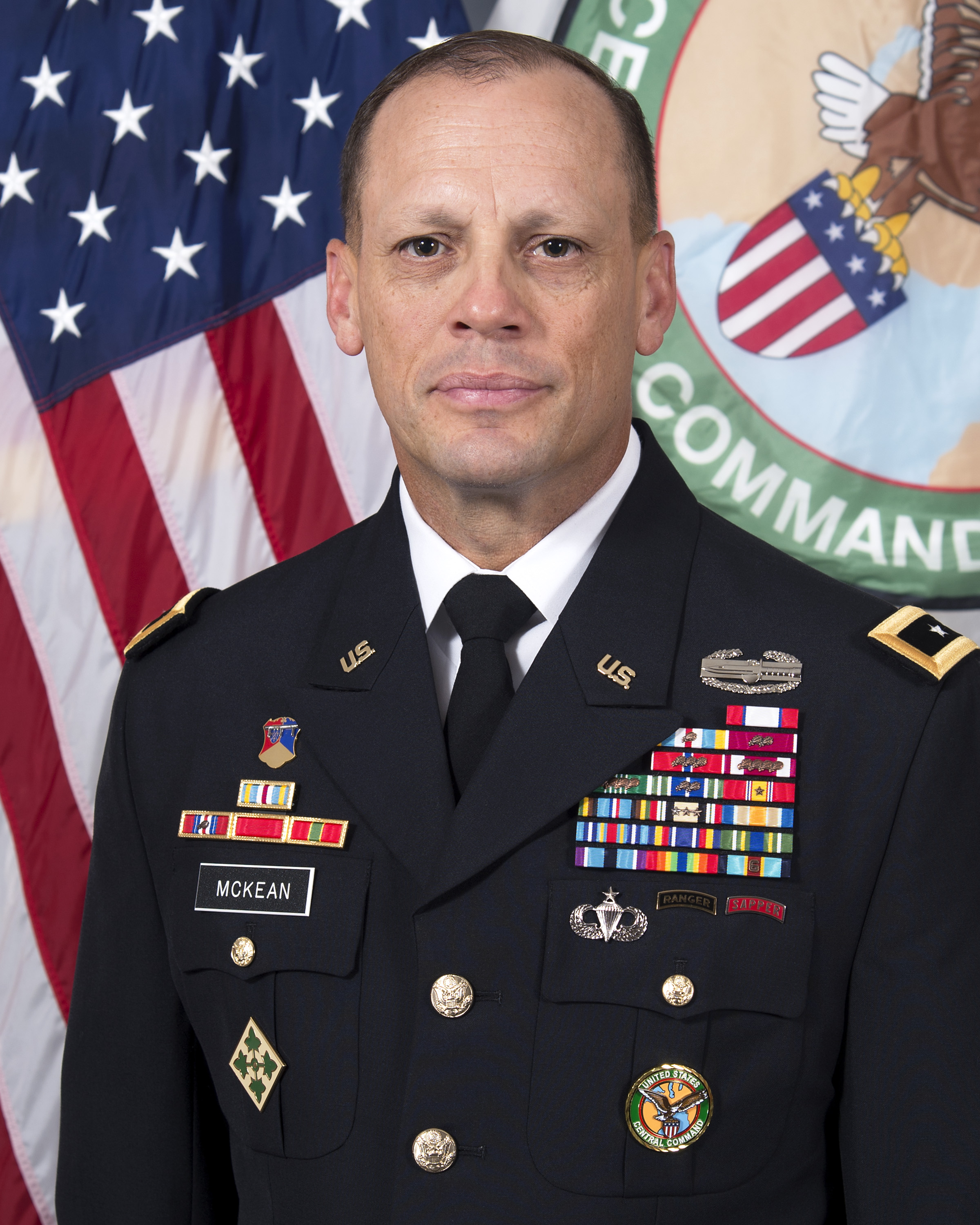 Maj. Gen. D. Scott McKean, Chief of Staff, U.S. Central Command